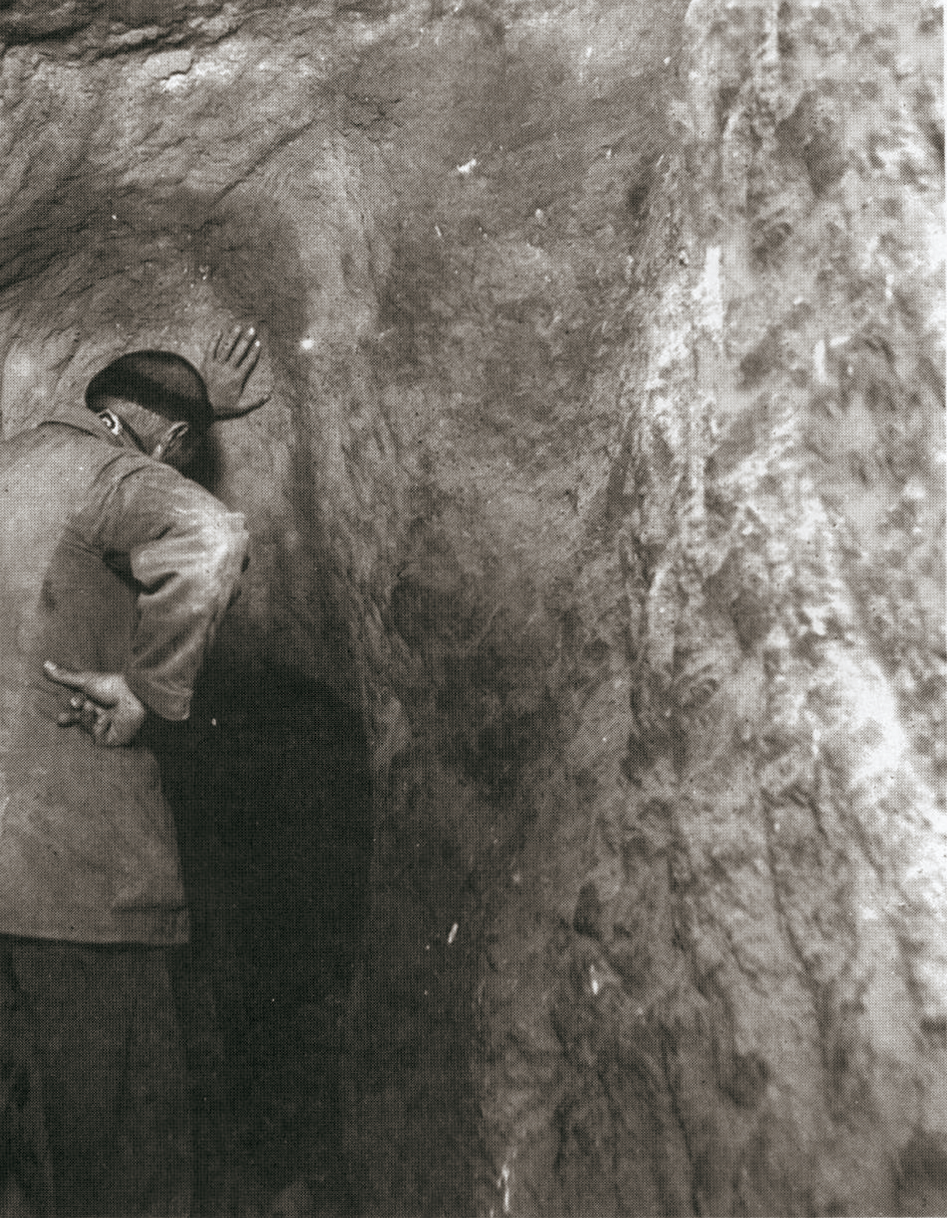 Louis-Hughes Vincent in Parker's excavation.